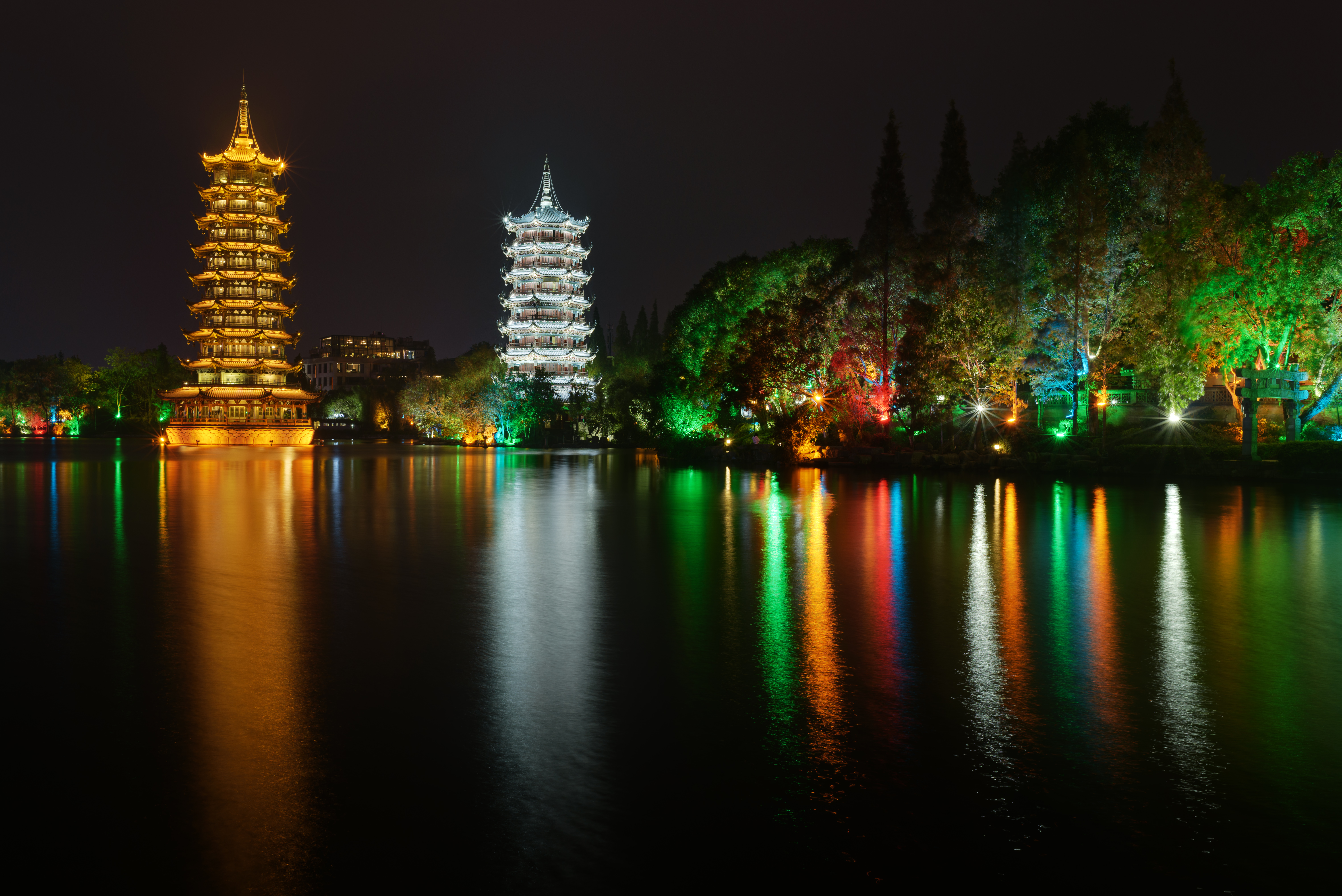 Sun and Moon Pagodas, Shanhu Lake, Guilin. HDR composed of three exposures of 1/2, 2, and 8 sec at f/11.